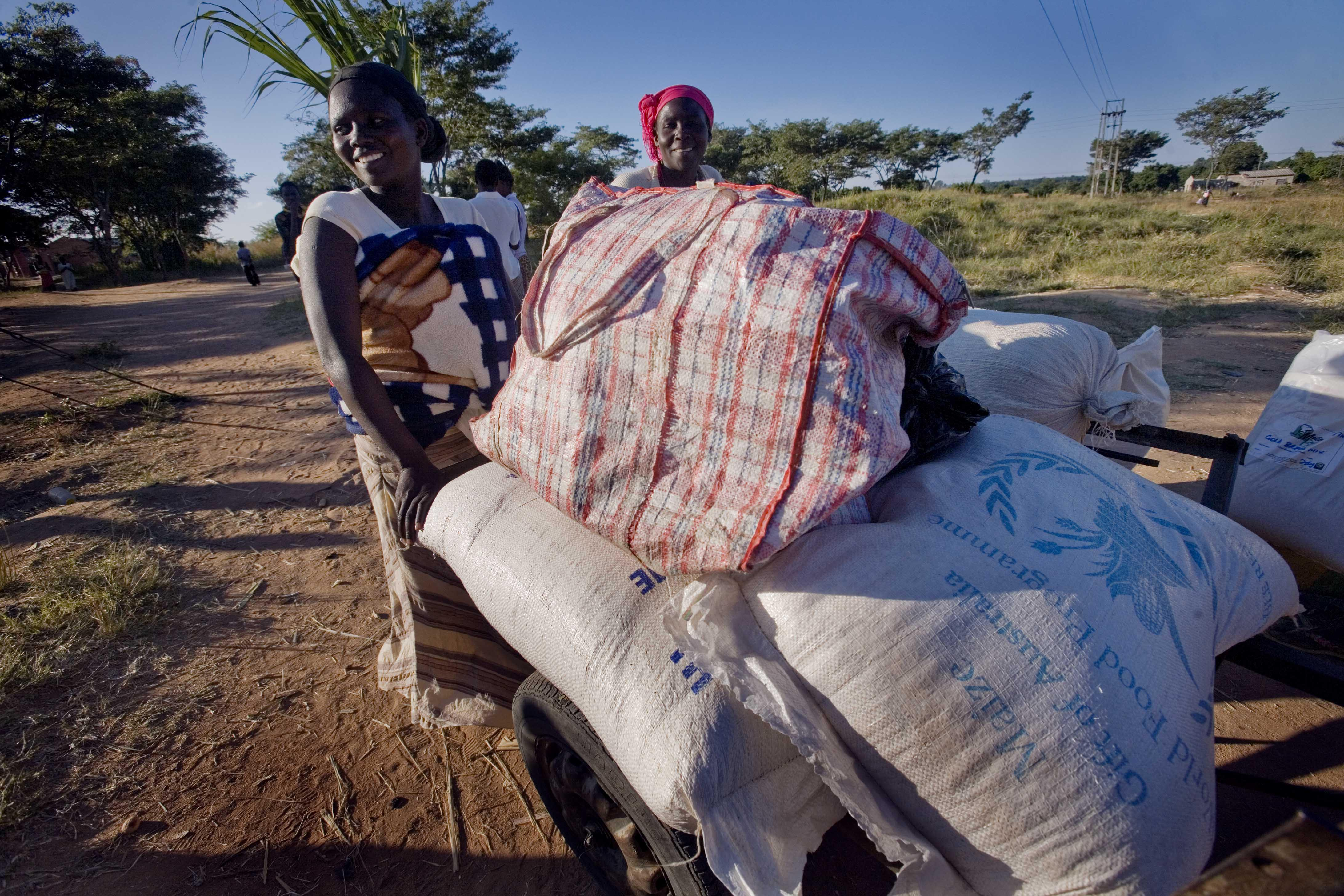 Women carry their village's food aid from Australa in a cart, near a World Food Programme food distribution point at Epworth in Harare, Zimbabwe in April 2009.